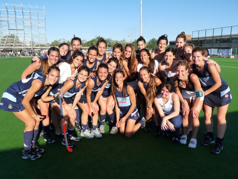 A GEBA women's field hockey team line-up.